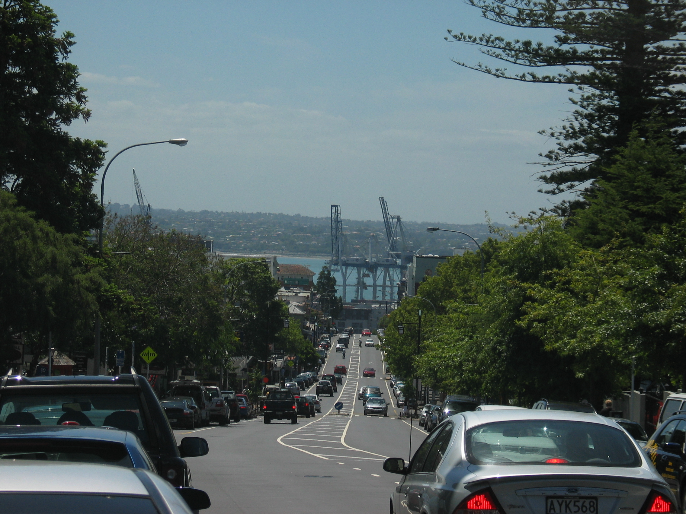 Looking NNW down Parnell Road, with the Auckland waterfront and Waitemata Harbour in the distance. Taken 17 January 2006